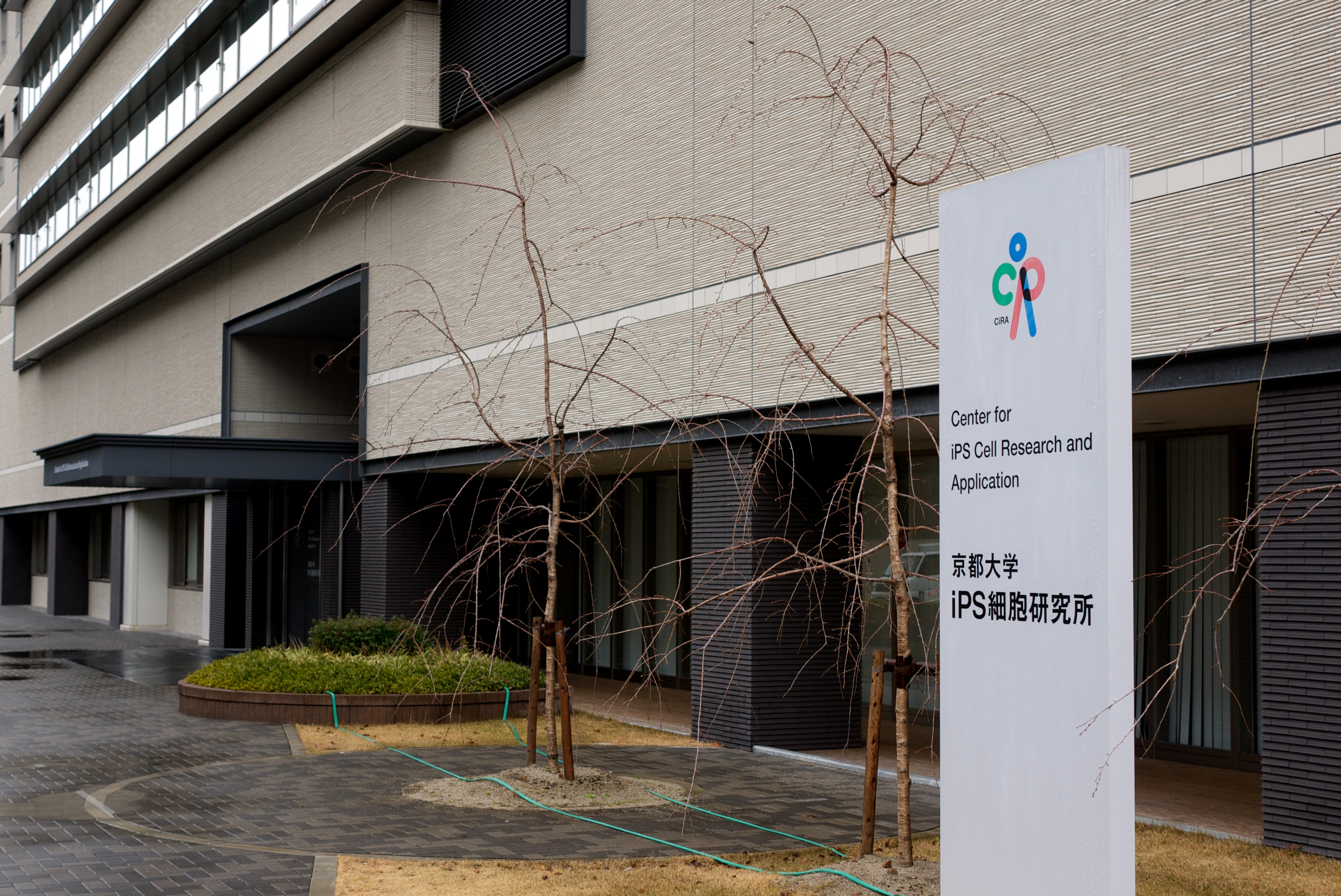 CiRA (Center for iPS Cell Research and Application) at Kyoto University.